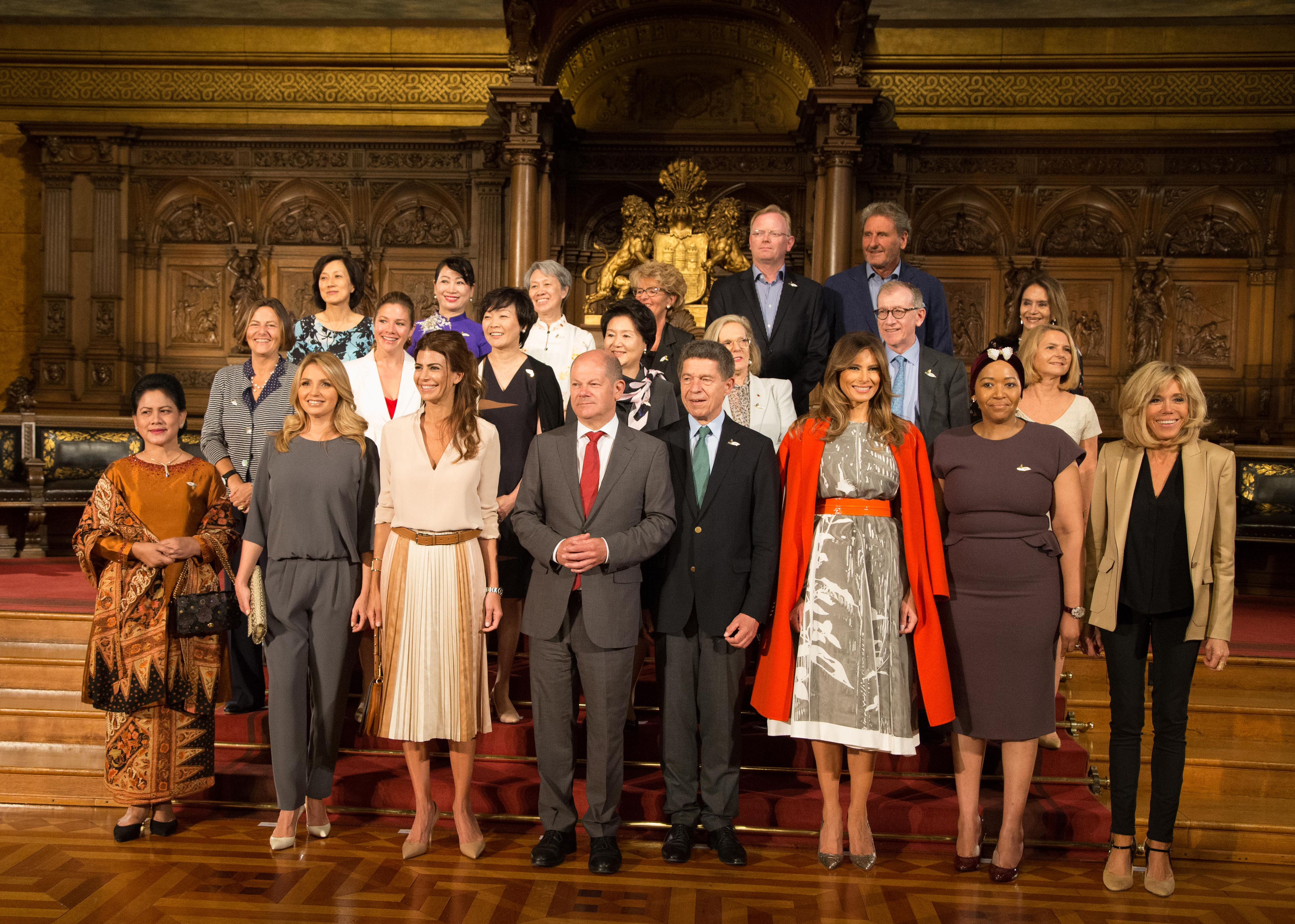 G20 Hamburg summit: Sophie Grégoire, Juliana Awada, Angélica Rivera, Melania Trump, Thobeka Madiba-Zuma, Brigitte Macron and many other spouses of politicians, together with the German financial secretary Olaf Scholz, visit the Hamburg Townhall, July 2017